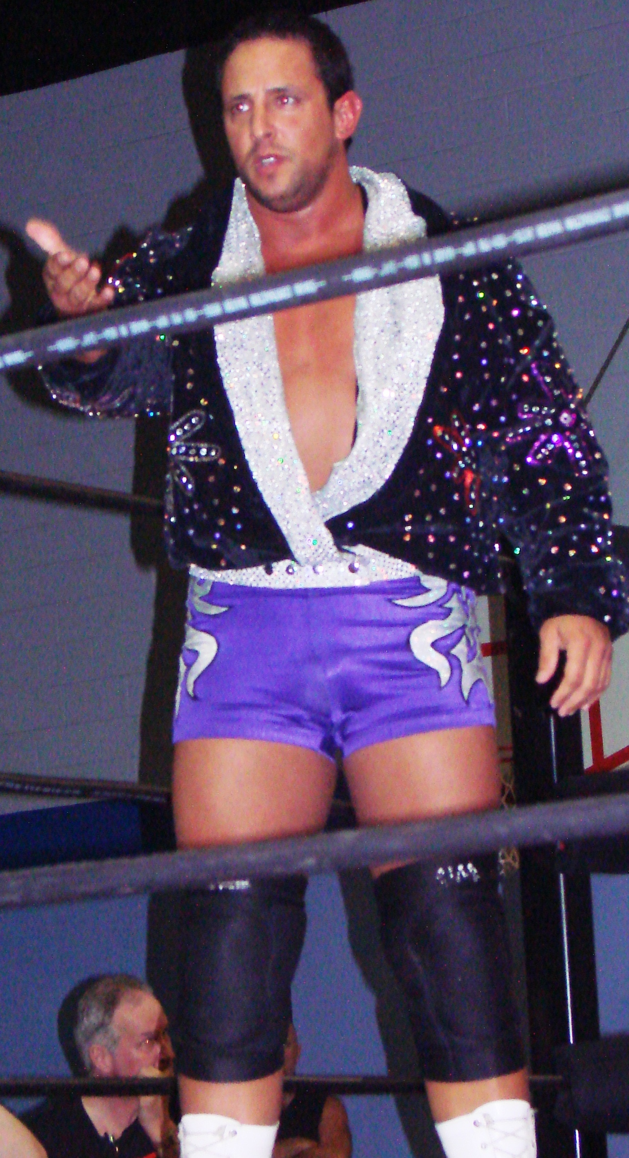 Billy Kidman at an NWA Midwest event. Streamwood, September 222007.